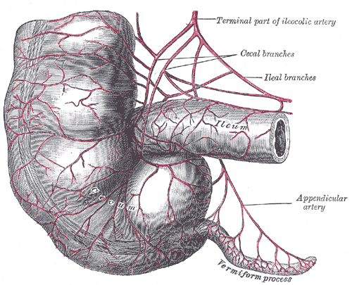 The cecum and vermiform process, with their arteries.